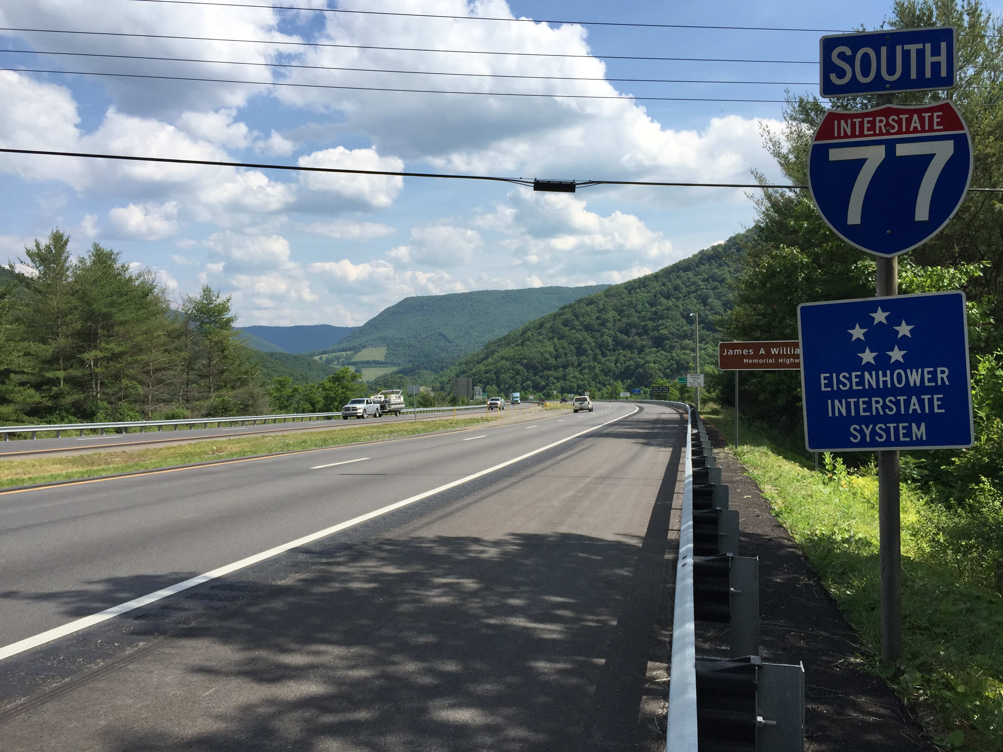 View south along Interstate 77 just south of Exit 66 (U.S. Route 52) in North Gap, Bland County, Virginia